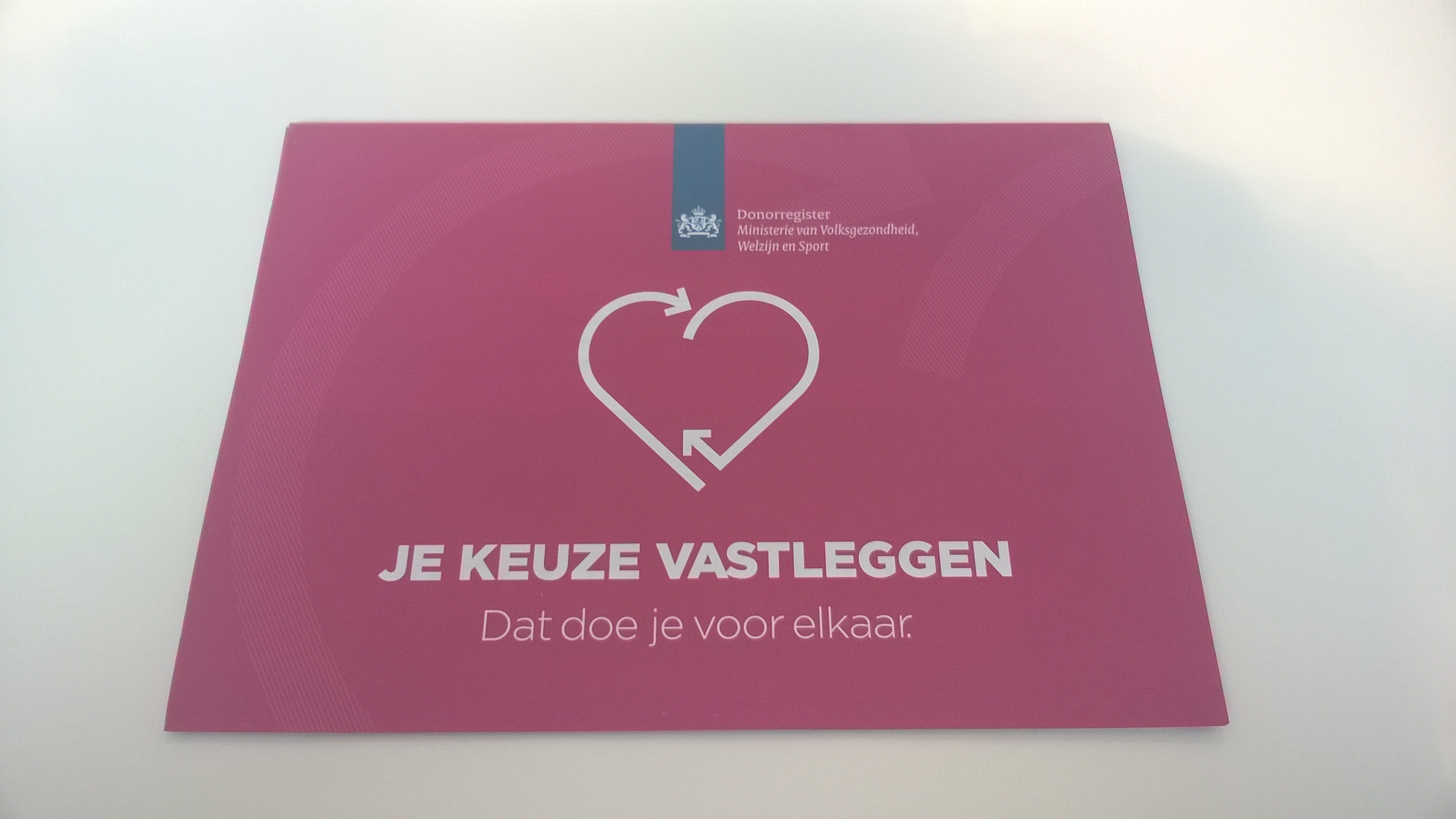 A pamphlet advocating for people to donate their organs after their death in the municipal office in the Groninger village of Oude Pekela.